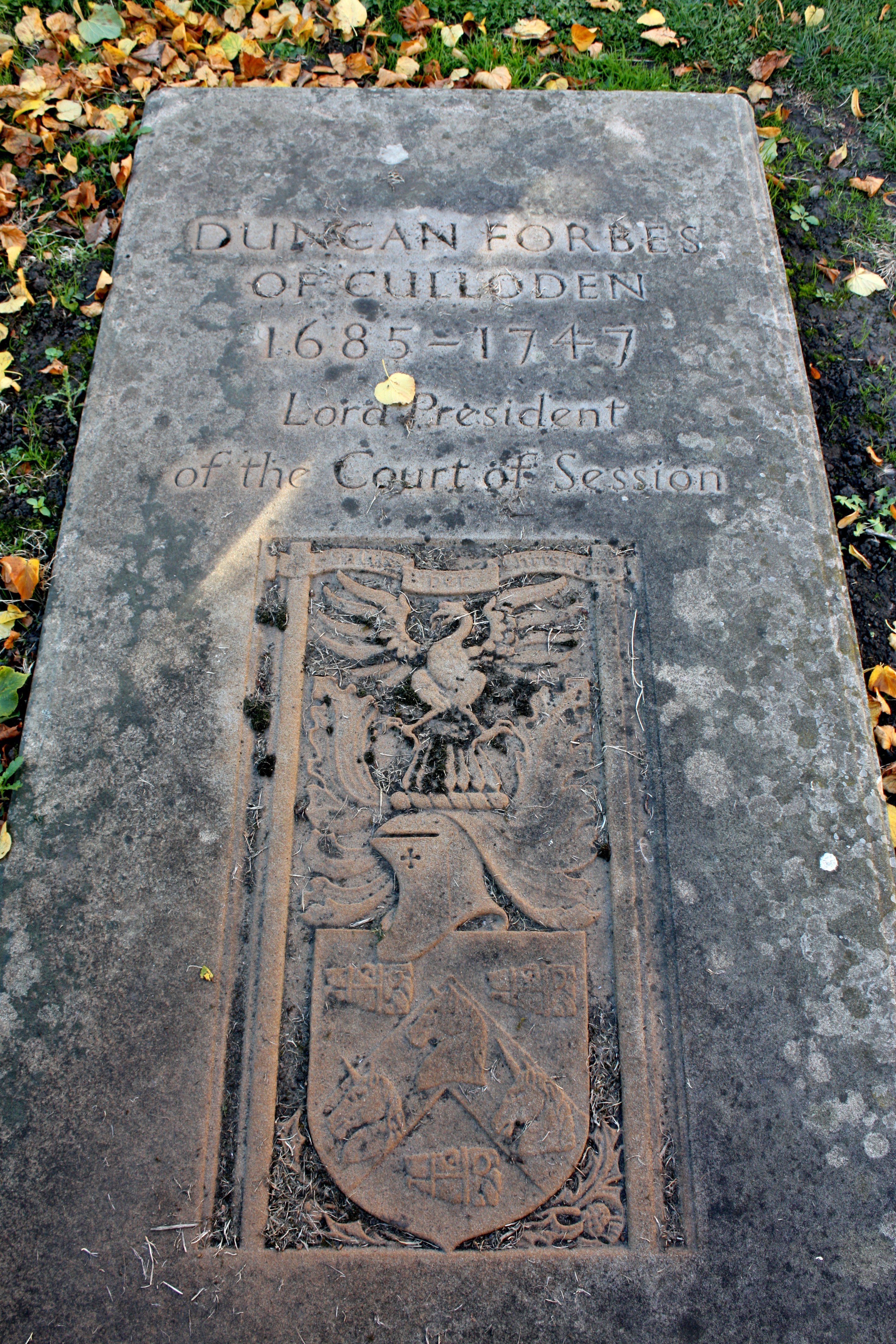 Grave of Duncan Forbes, Lord Culloden (1685 – 1747). Greyfriars Kirkyard, Edinburgh, Scotland.